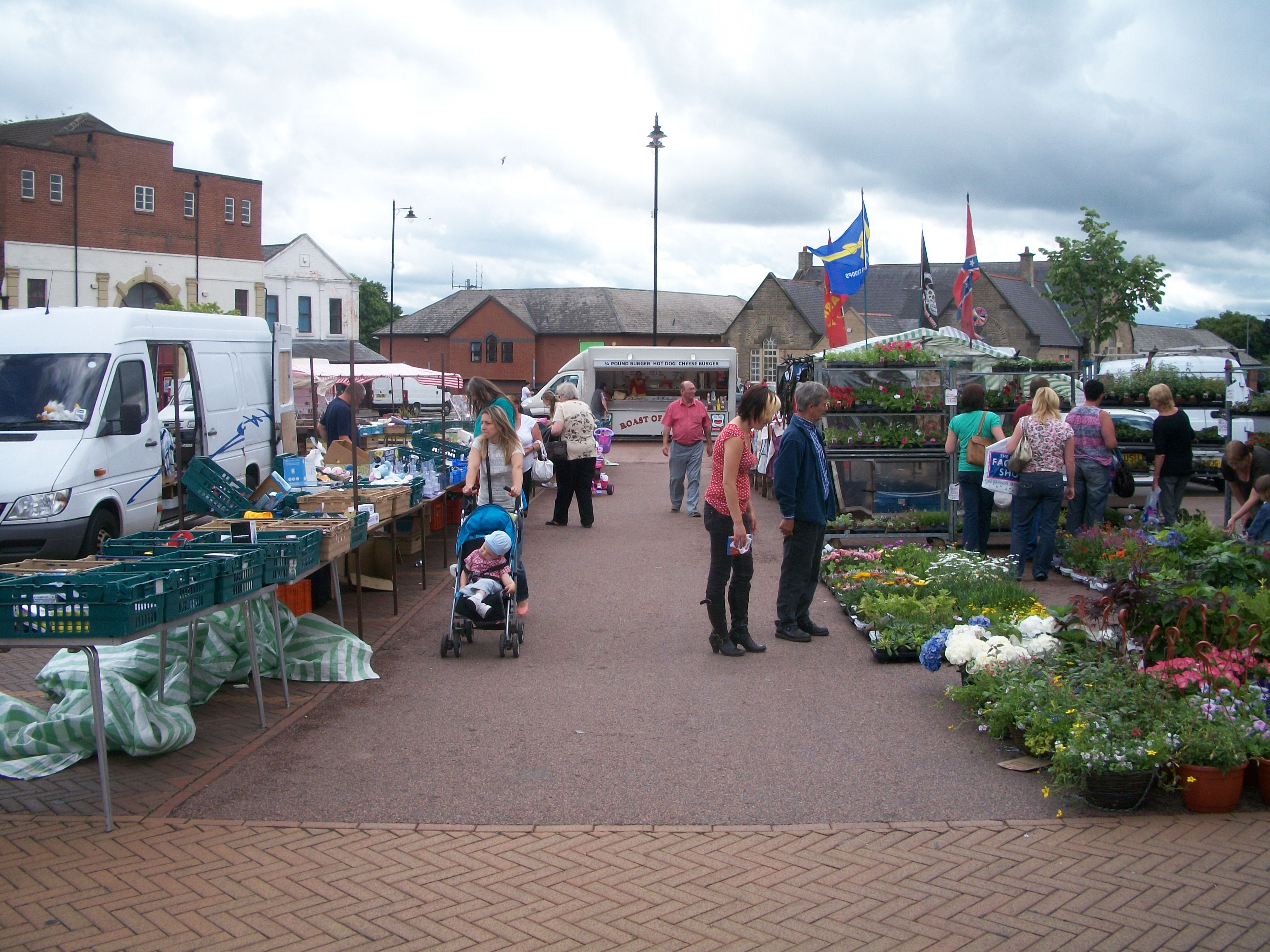 Open air market in Crook, Co. Durham